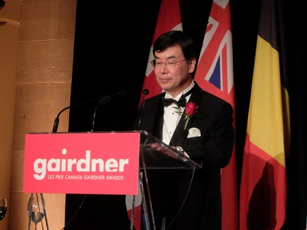 Shimon Sakaguchi, Professor of the Immunology Frontier Research Center, Osaka University, addressed at Gairdner Foundation International Award Ceremony at the Royal Ontario Museum in Toronto City, Ontario Province on October 29, 2015.